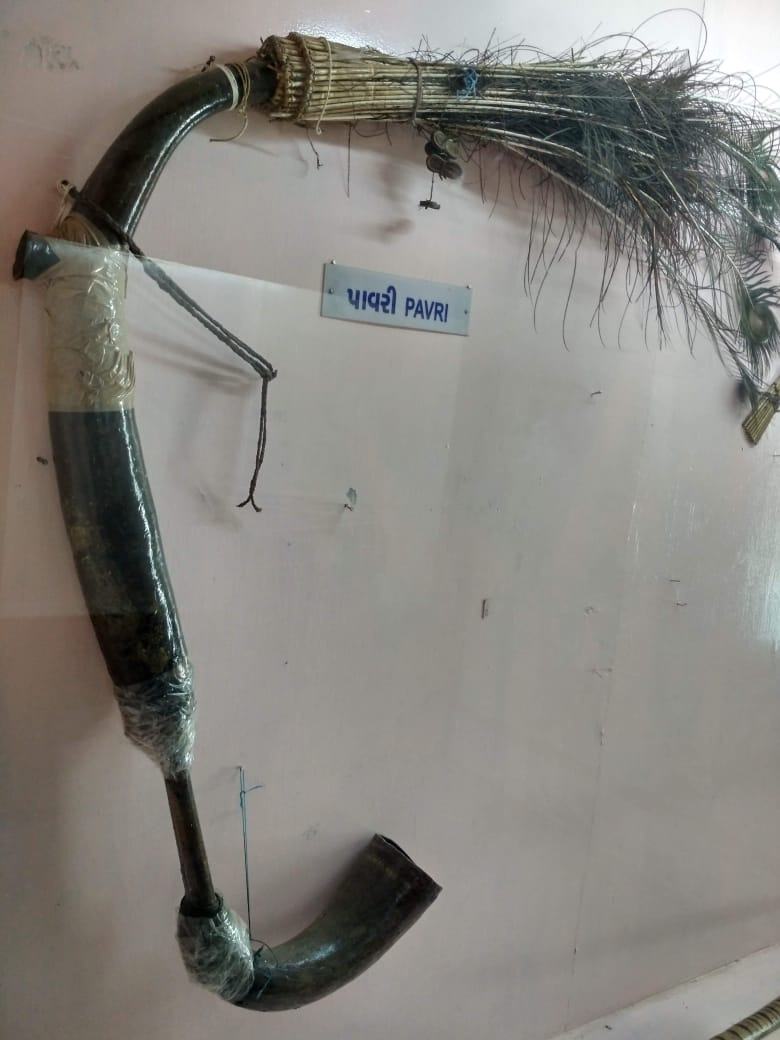 'Pawari', is a traditional instrument of the Dangis. It has been regularly used in all the prominent functions and festivals in Dang. In Dhule of Maharashtra, Pawari has been used mainly in weddings. But in Dang, it is frequently used, especially in the Dang Durbar, a spectacular annual festival held in the district for three days during Holi. Today, however, only a very few individuals play it. This photo has been taken in the country: India